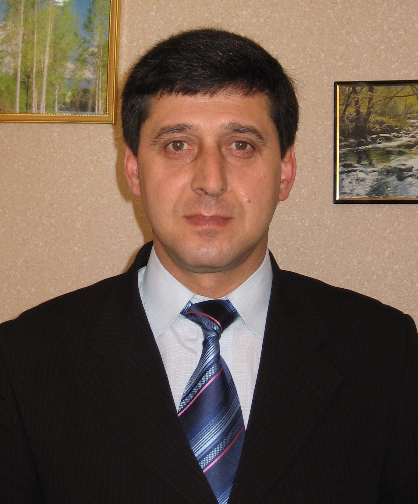 Dyrektor